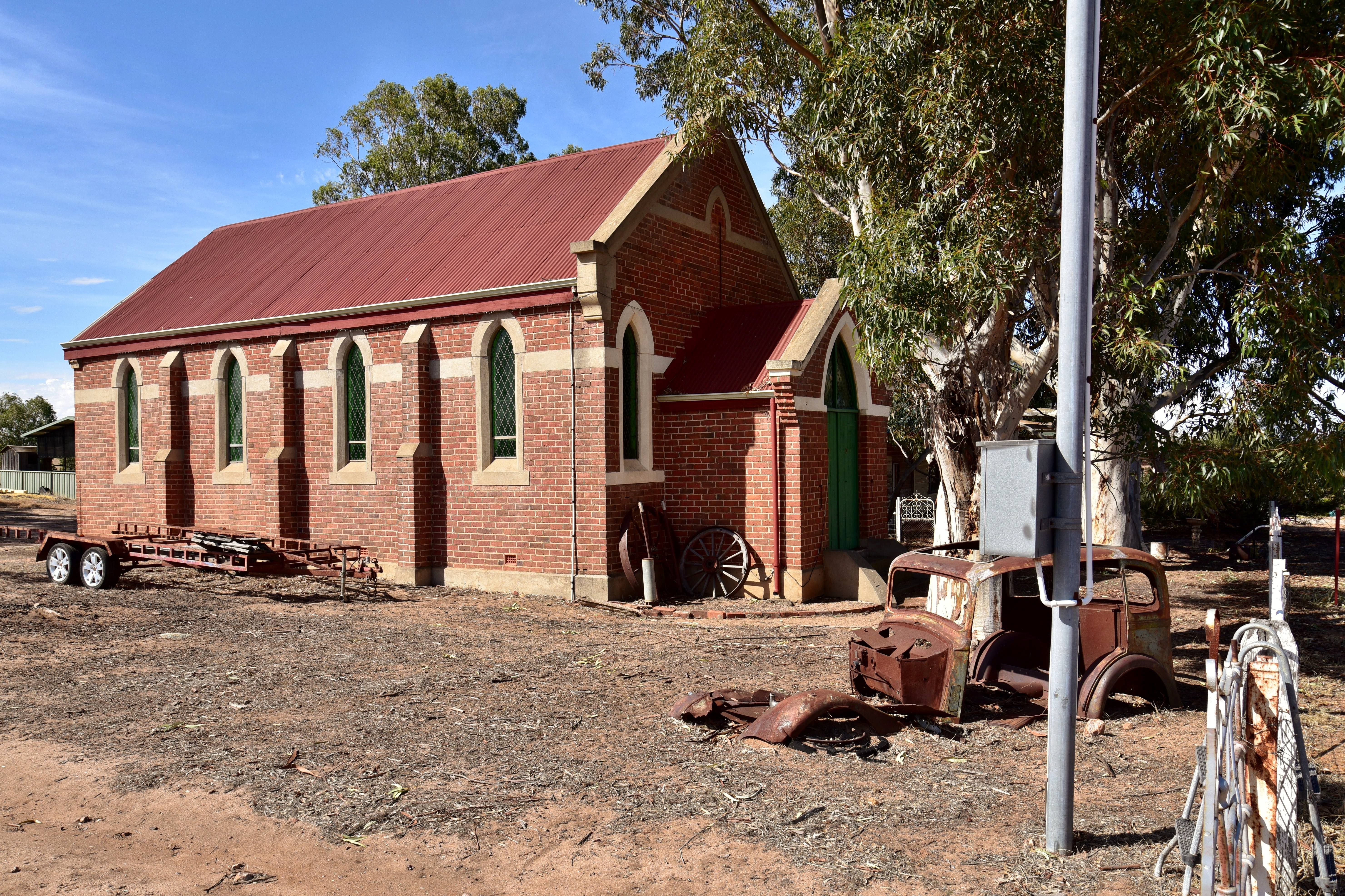 View of the former Dangin Methodist Church, Dangin, Western Australia